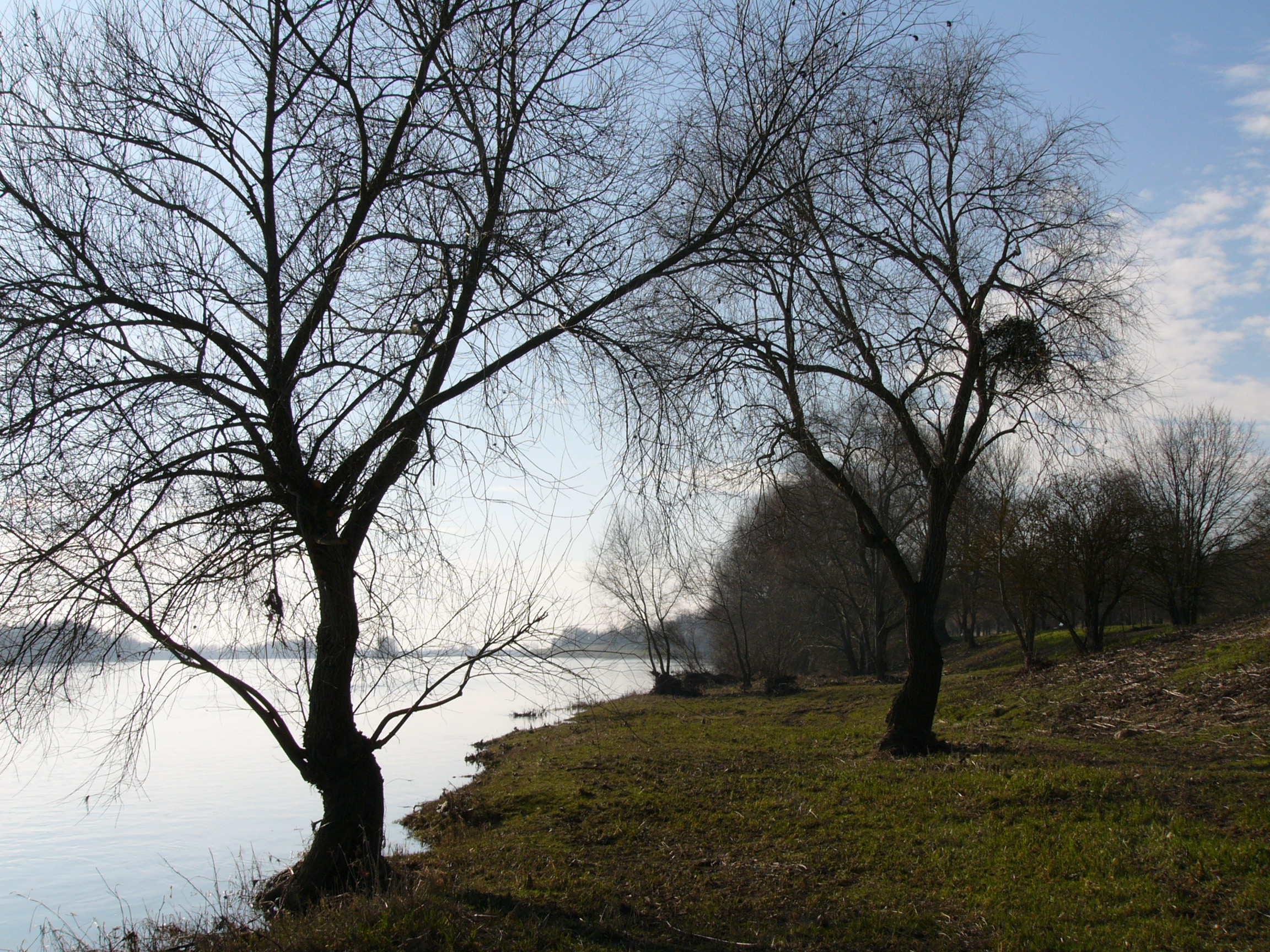 Loire River in Châteauneuf-sur-Loire, France.